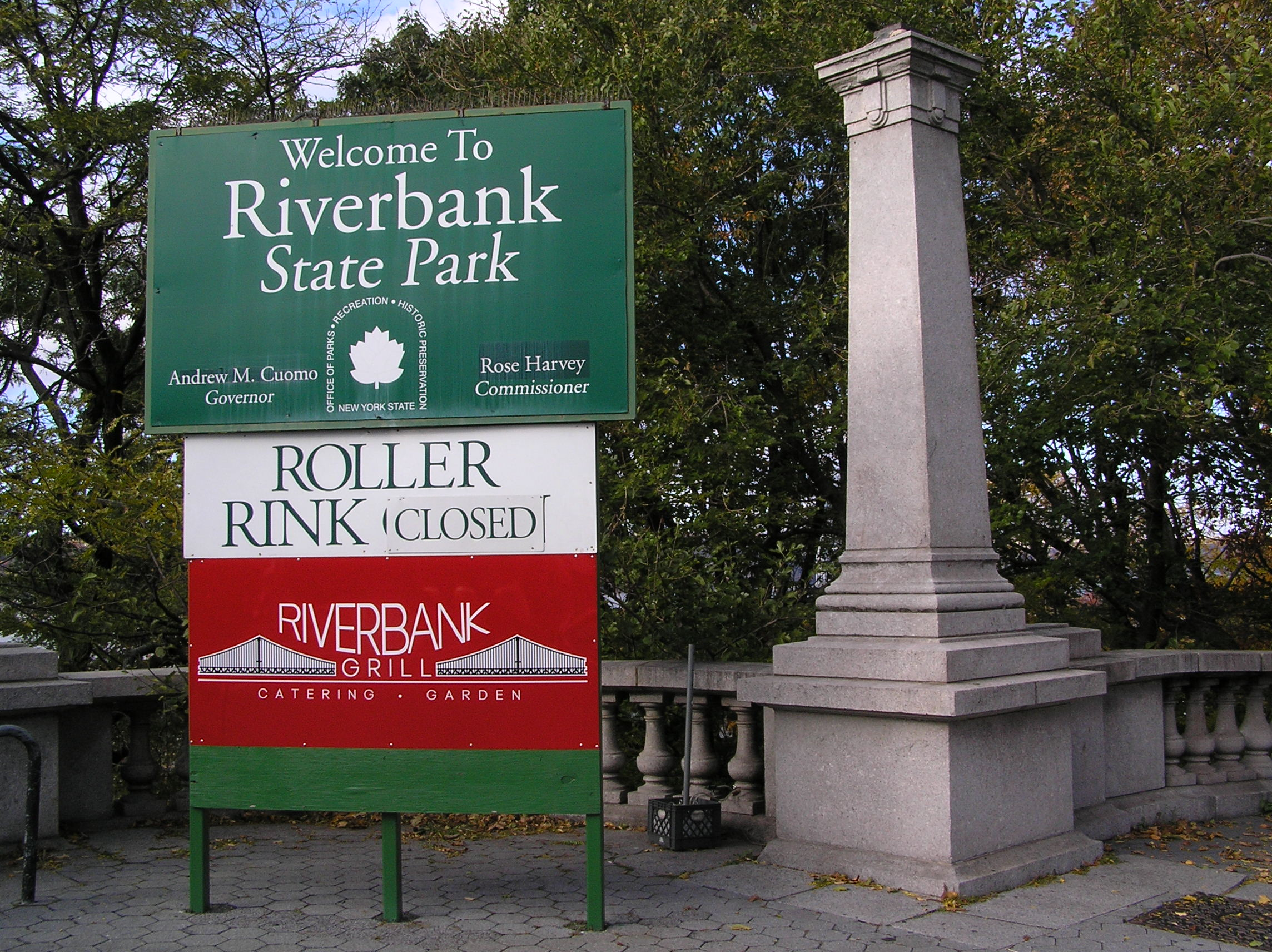 A photograph of the Welcome Sign at the entrance to Riverbank State Park